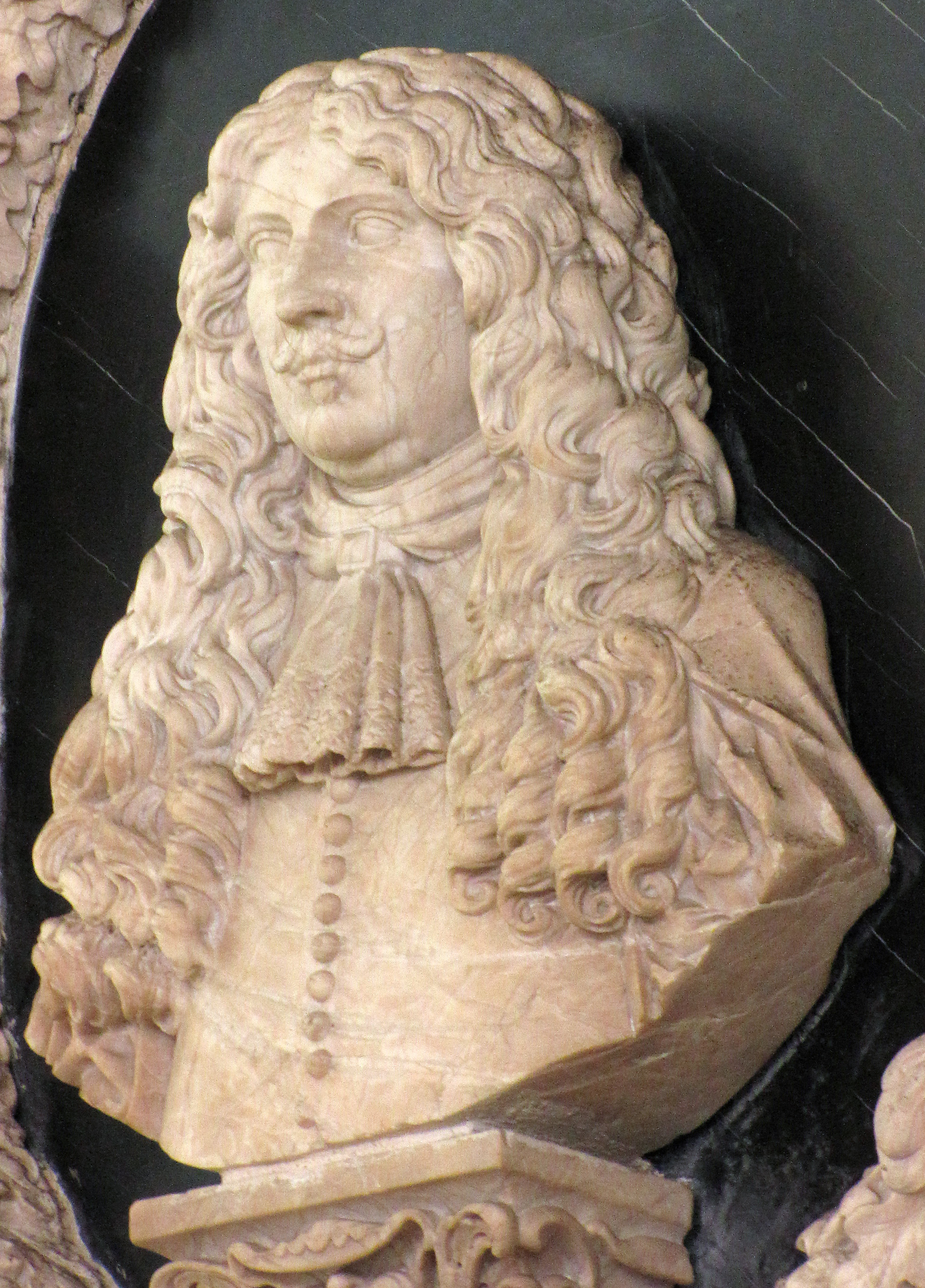 Part of Valentin von Loienfels/Löwenfels' (1628–1670) epitaph in Ss. Cosmae et Damiani in Stade, Niedersachsen, Germany.